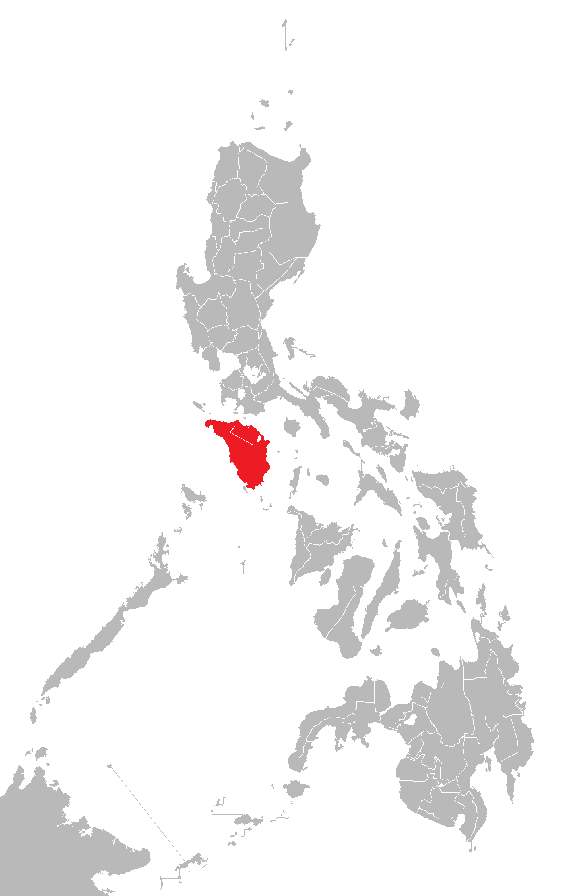 Locator map of Mindoro Island (red) — in the MIMAROPA Region of Luzon, the Philippines. Derived from File:BlankMap-Philippines.png Map of Mindoro Island In red